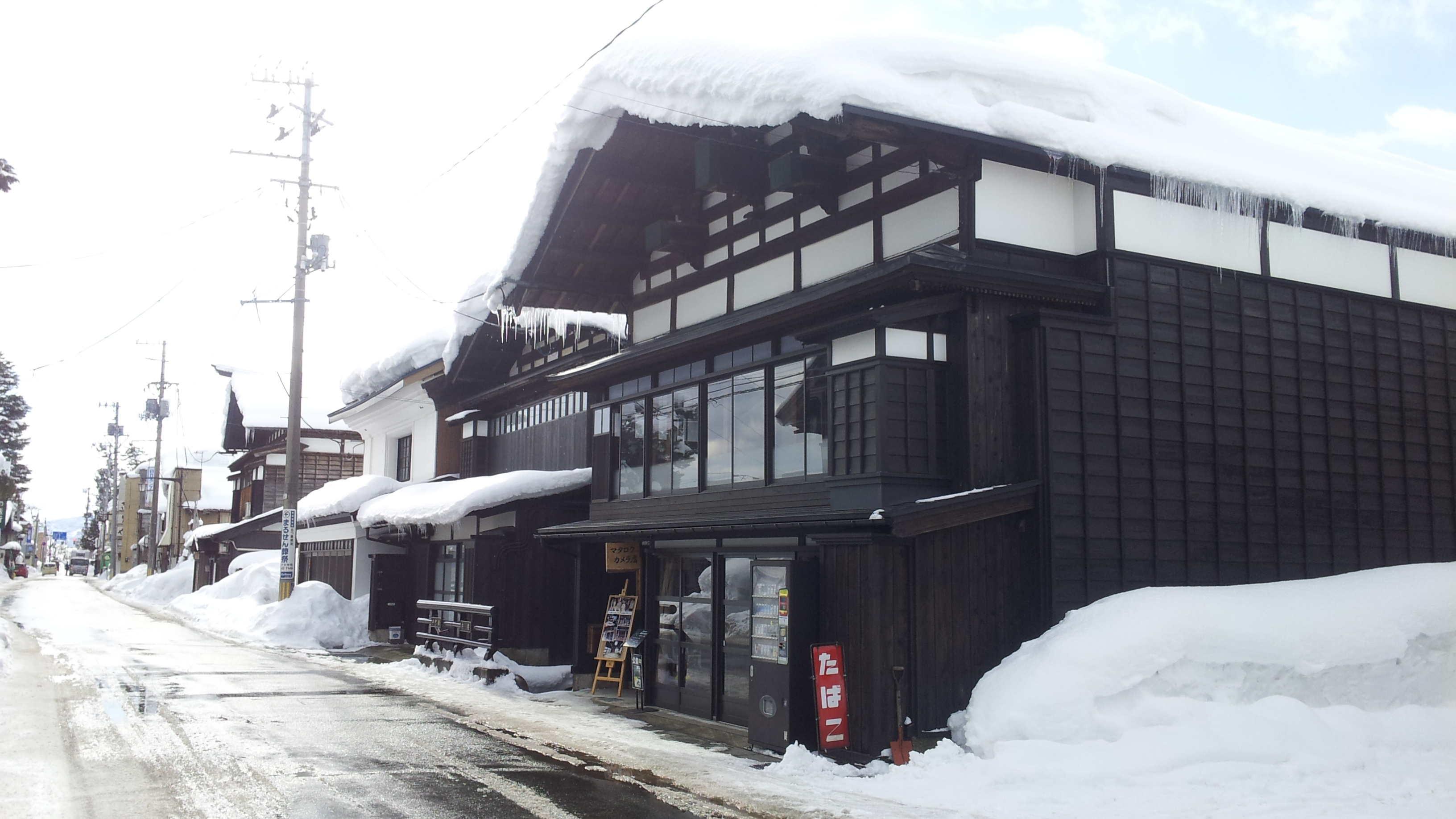 Nakananokamachi Street (Nakananokamachi-dori) in winter